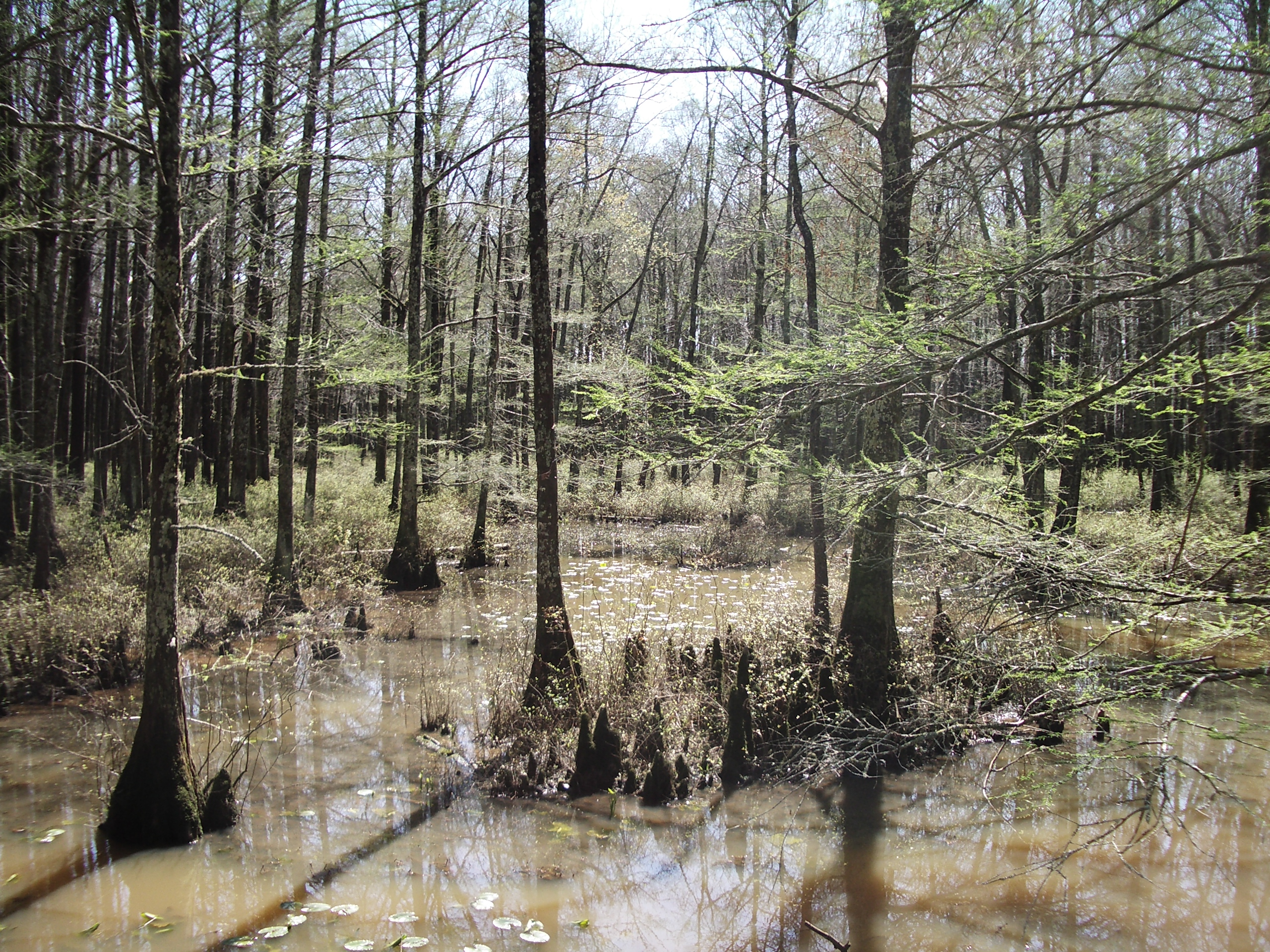 Clark Conservation area Wolf River Nature Conservancy 25